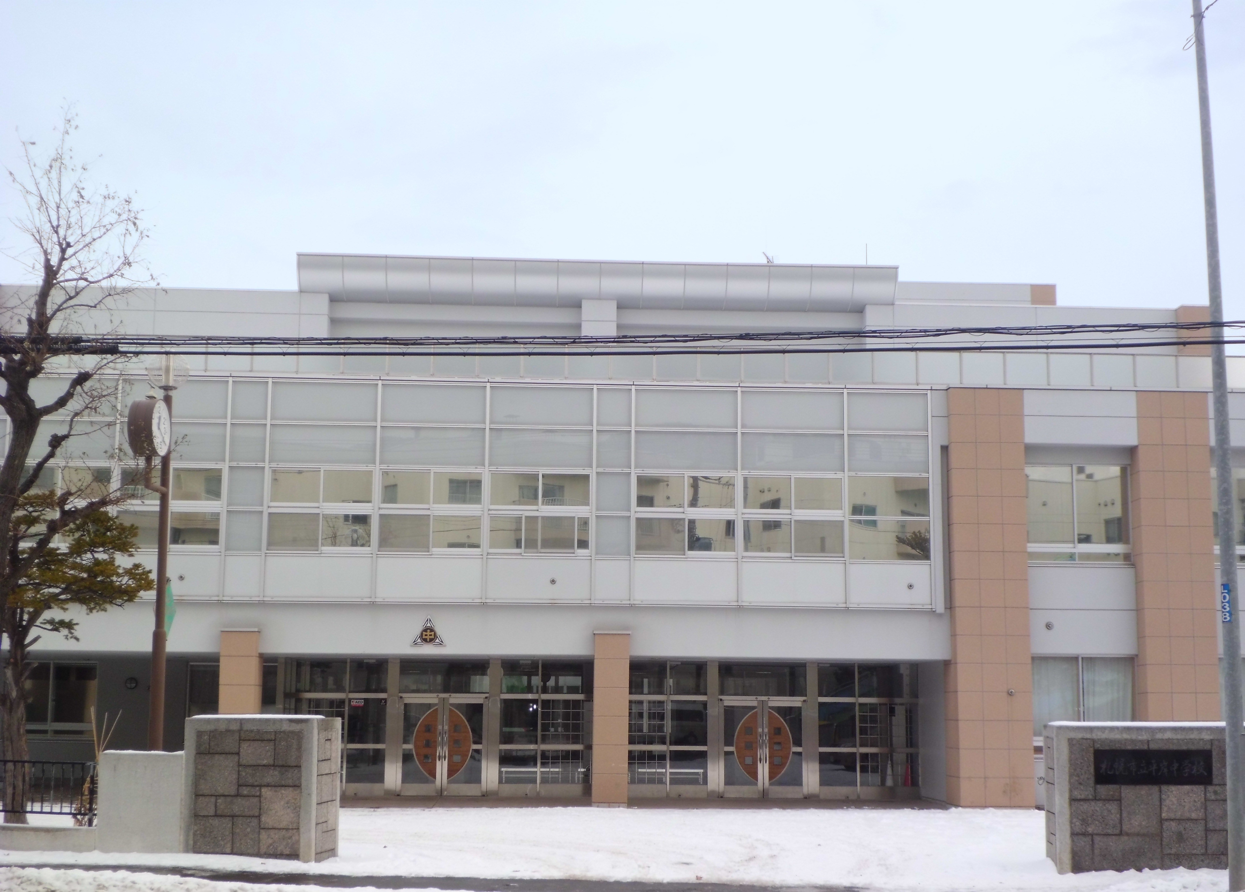 Sapporo City Hiragishi Junior High School